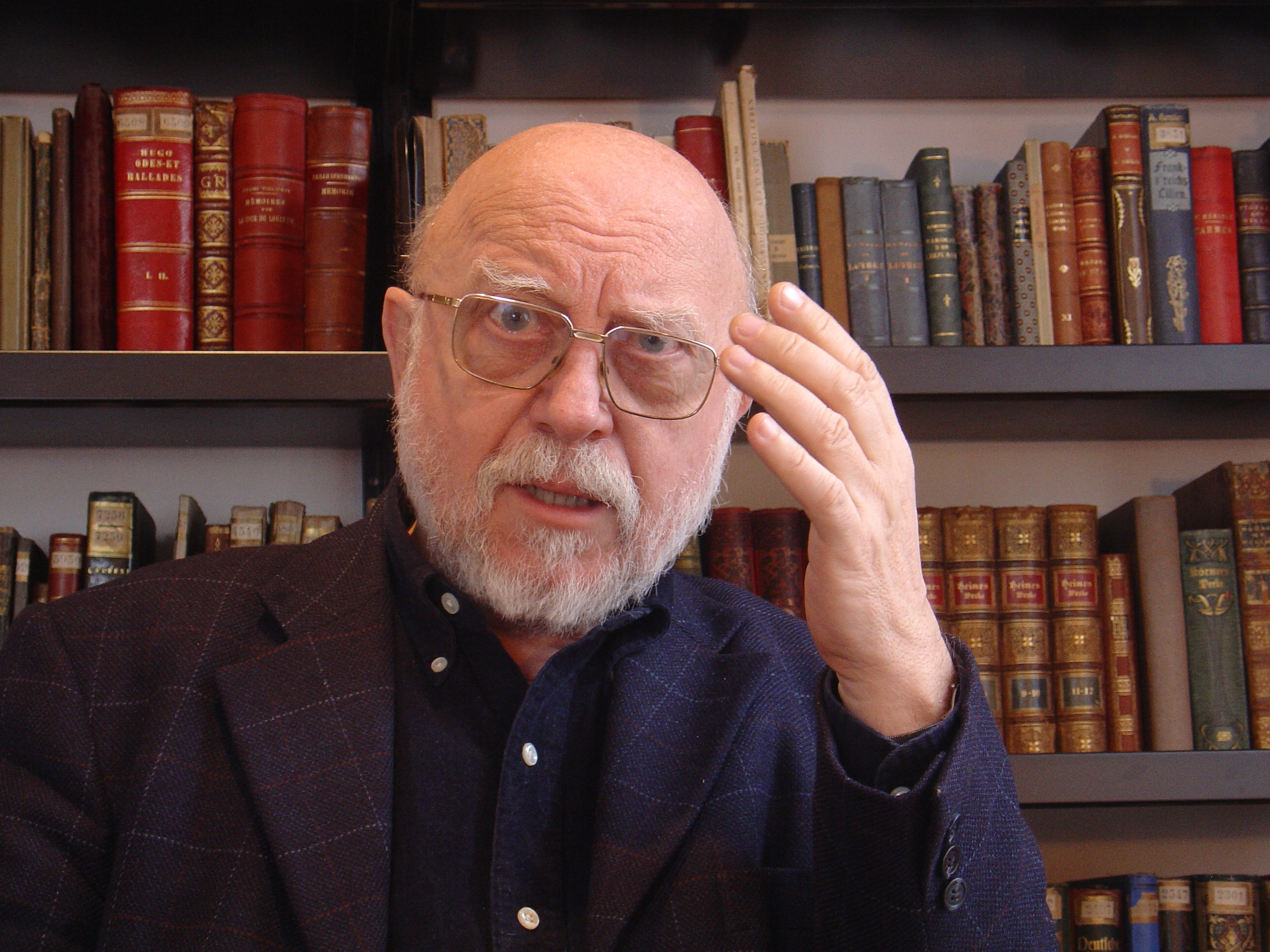 Carlo de Incontrera